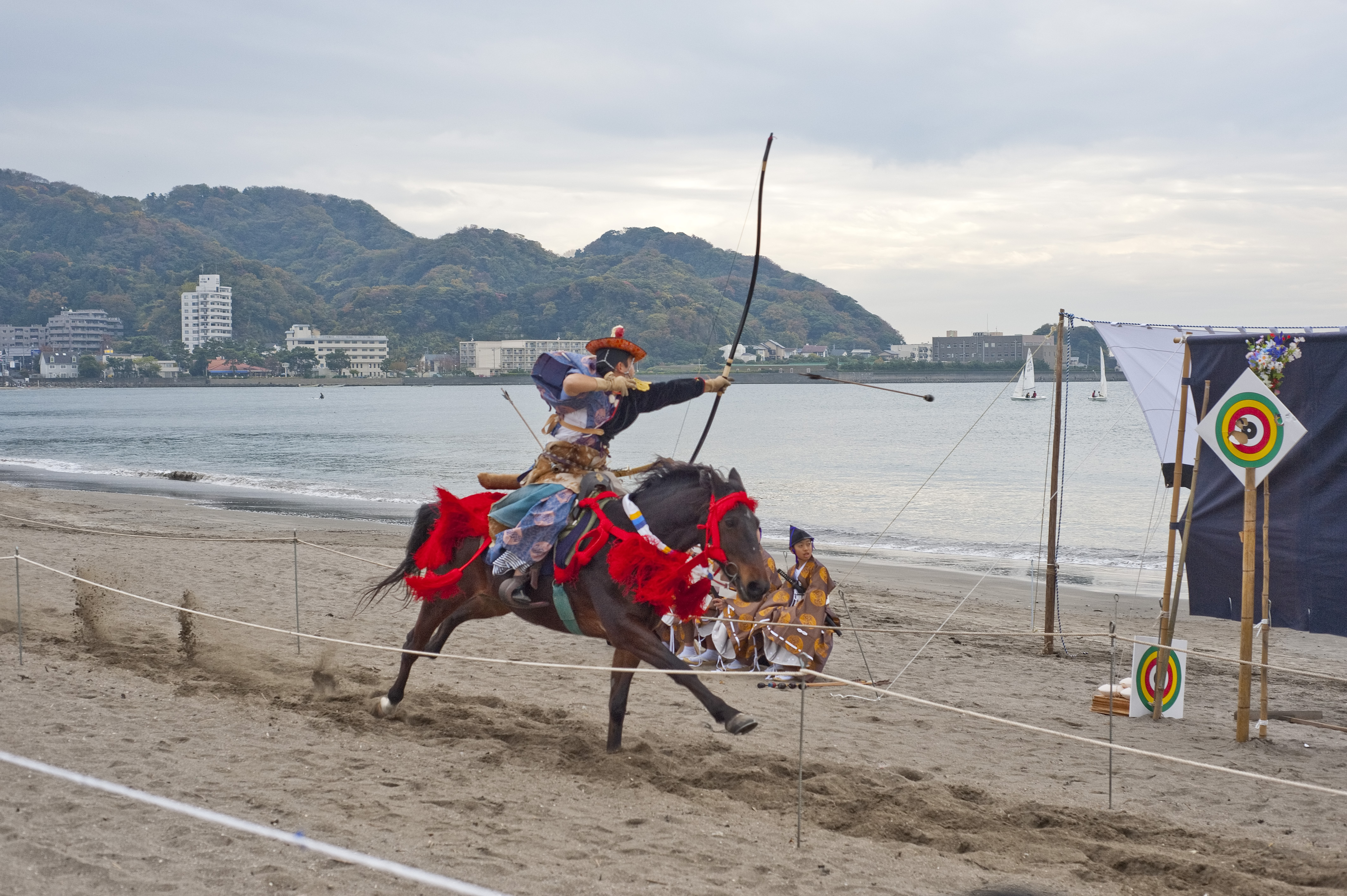 Yabusame in Zushi, November 2010